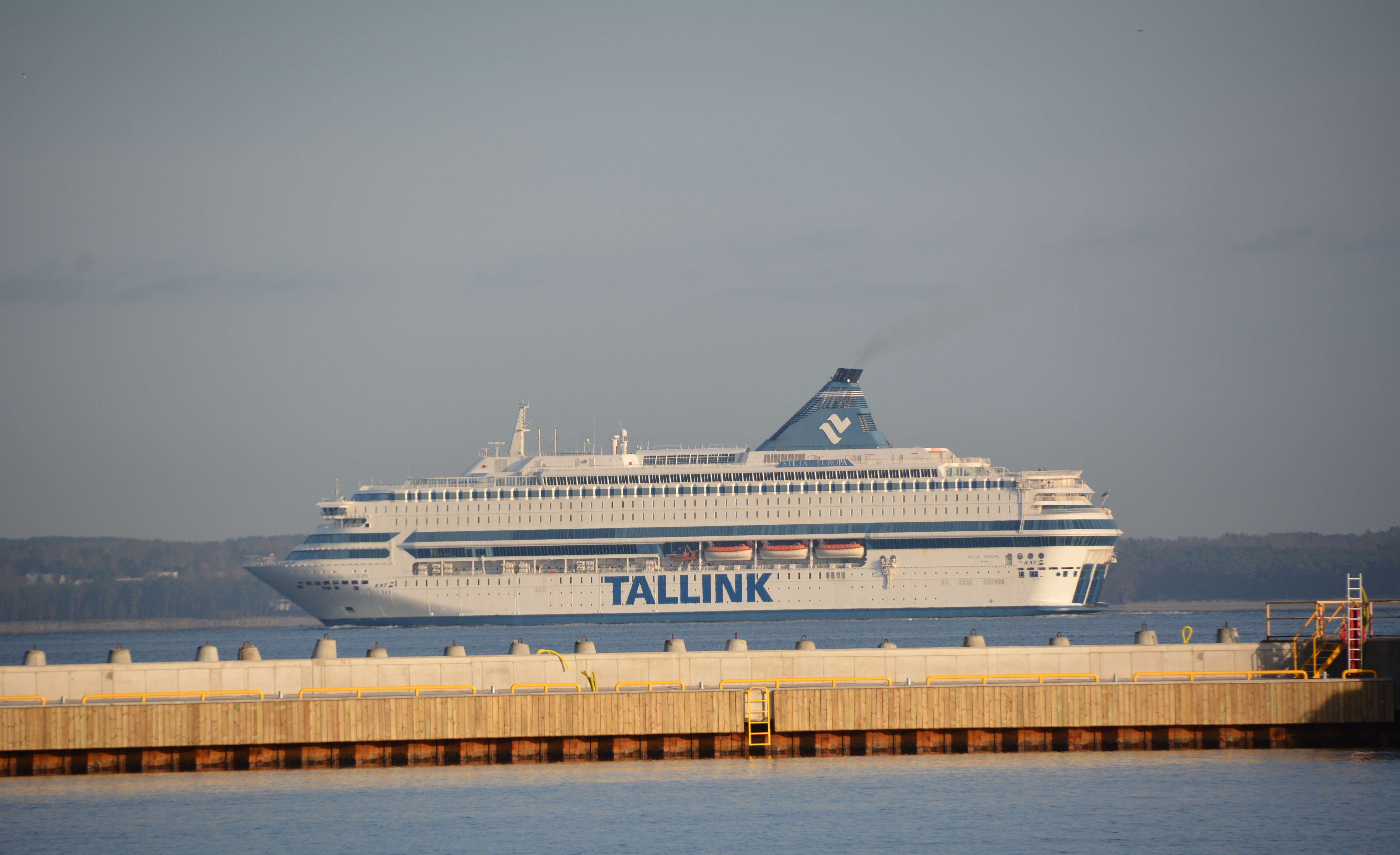 Silja Europa from Noblessner Tallinn